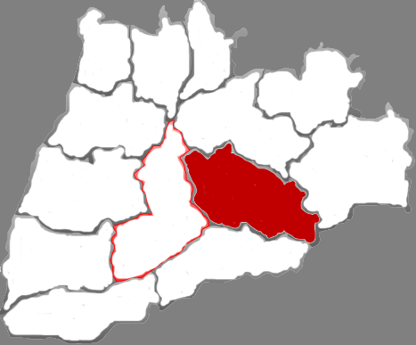 Location of Xia county in Yuncheng City, China